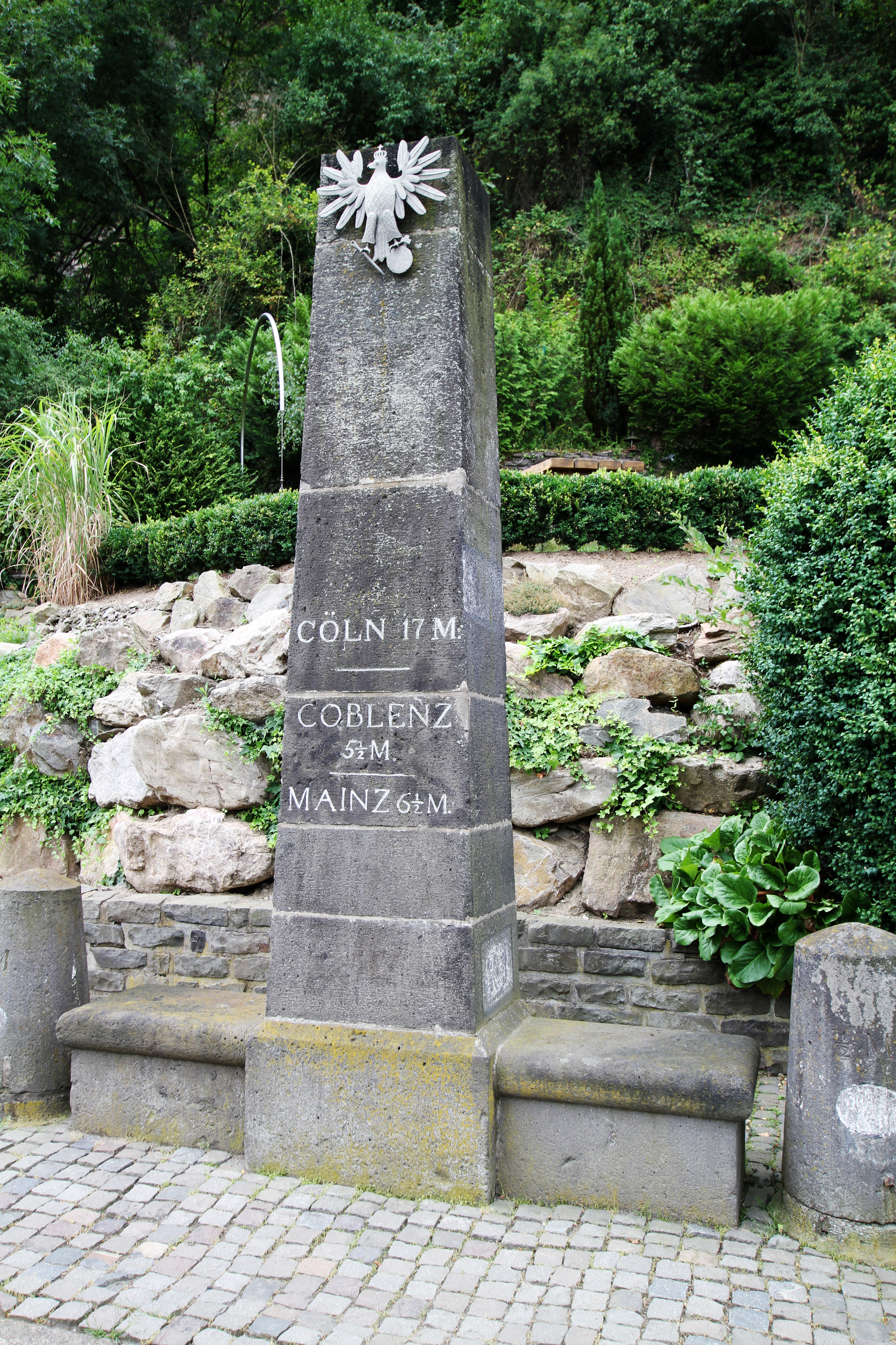 Milestone of Prussia in Oberwesel